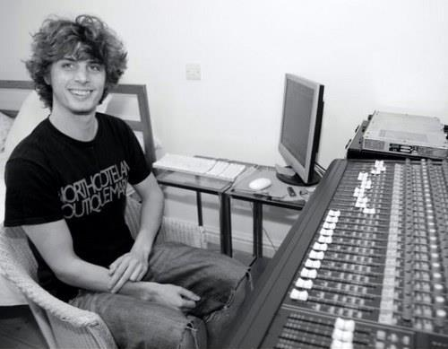 Welsh producer and composer Jordan Andrews in the early days of his career